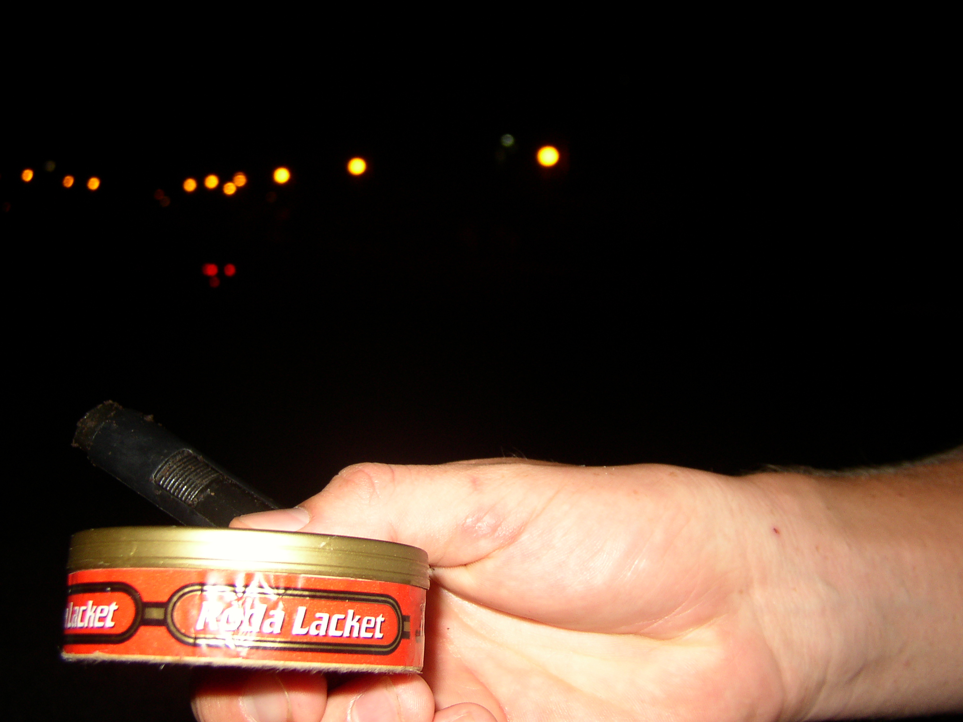 Snus Röda Lacket and Prismaster